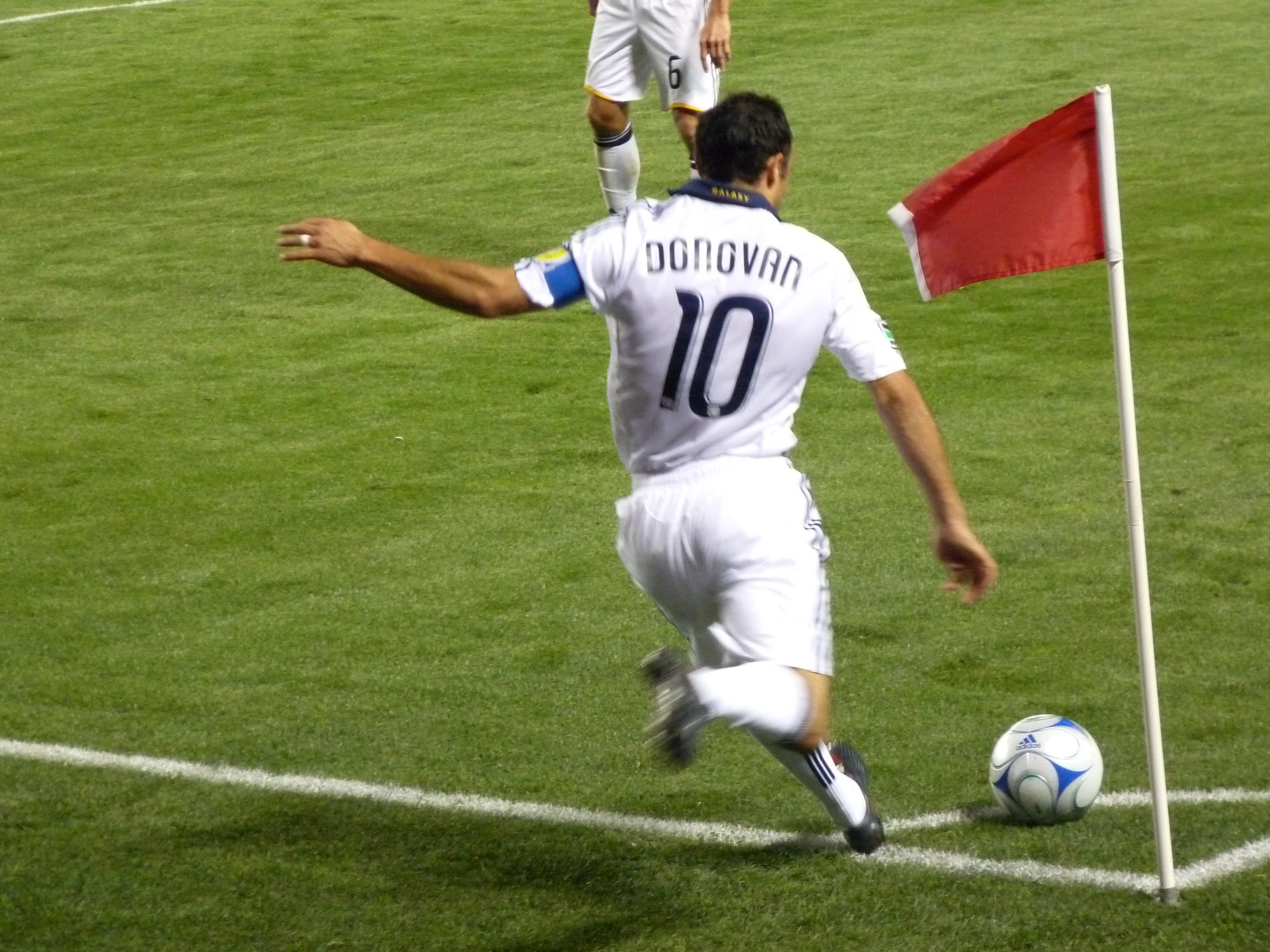 Landon Donovan sending in a corner kick.